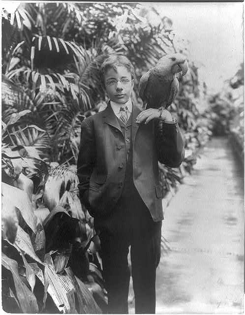 Title Teddy, Jr. & "Eli Yale" Summary Theodore Roosevelt, Jr., posed with a blue macaw. Contributor Names Johnston, Frances Benjamin, 1864-1952, photographer Created / Published c1902 June 17. Format Headings Photographic prints--1900-1910. Portrait photographs--1900-1910. Notes - H19119 U.S. Copyright Office. - Title and other information transcribed from caption card and item. - Frances Benjamin Johnston Collection (Library of Congress). - Formerly in LOT 4273. - Published in: Presidential Pets / Niall Kelly (1992), p. 48, bottom. Medium 1 photographic print. Call Number/Physical Location LOT 11735 [item] [P&P]